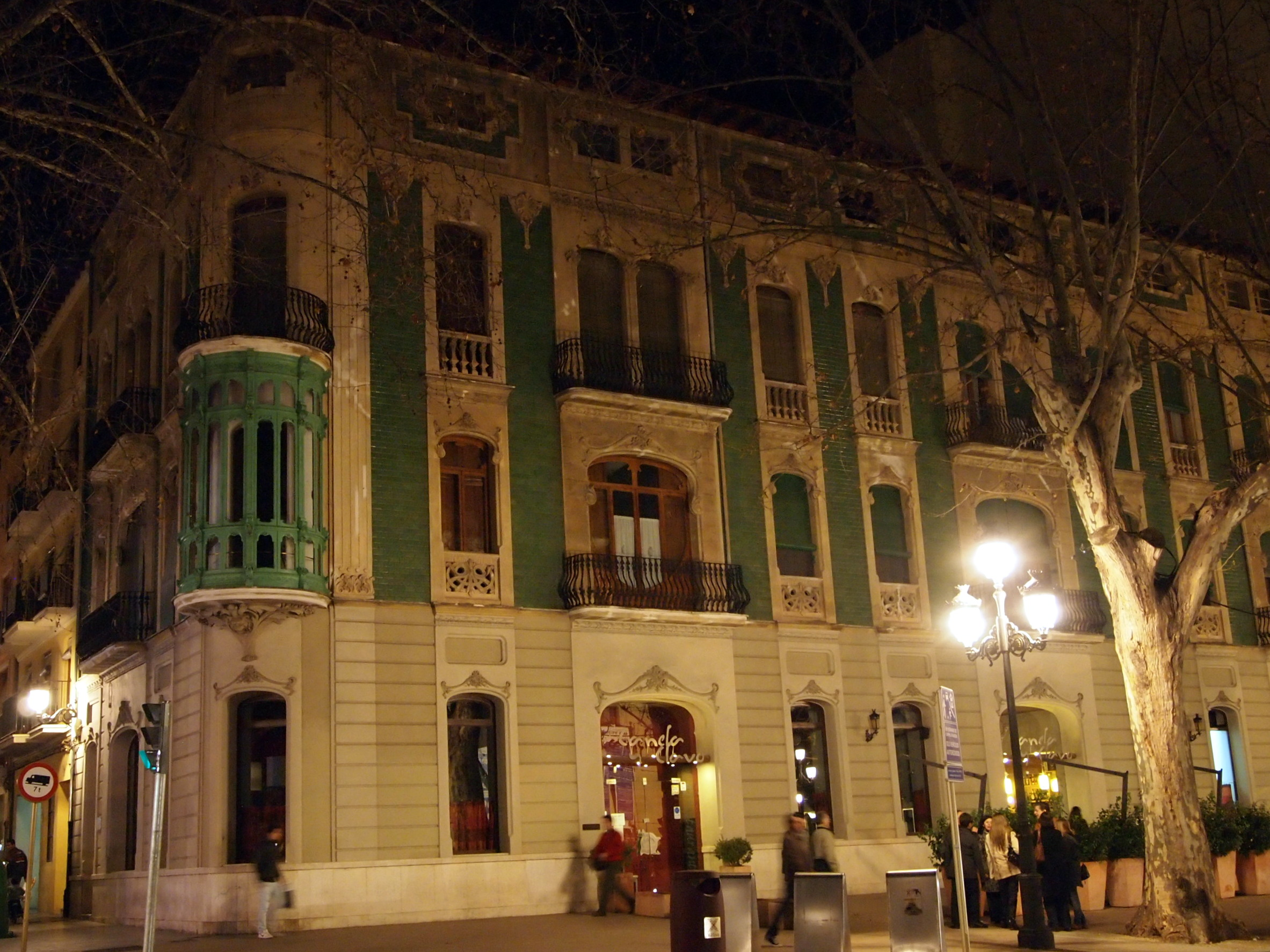 Nightview of Botella Building, in Xàtiva